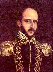 Portrait of Tomás de Herrera Colombian General and at one point president of the New Granada (now Colombia)